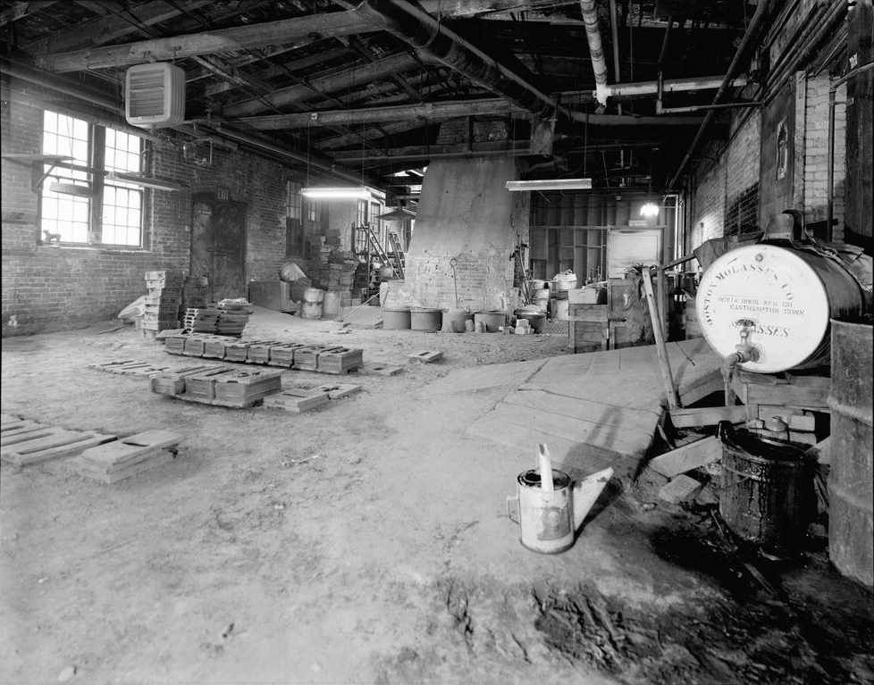 Bevin Brothers Bell Shop (later Bevin Brothers Manufacturing) in East Hampton, Connecticut